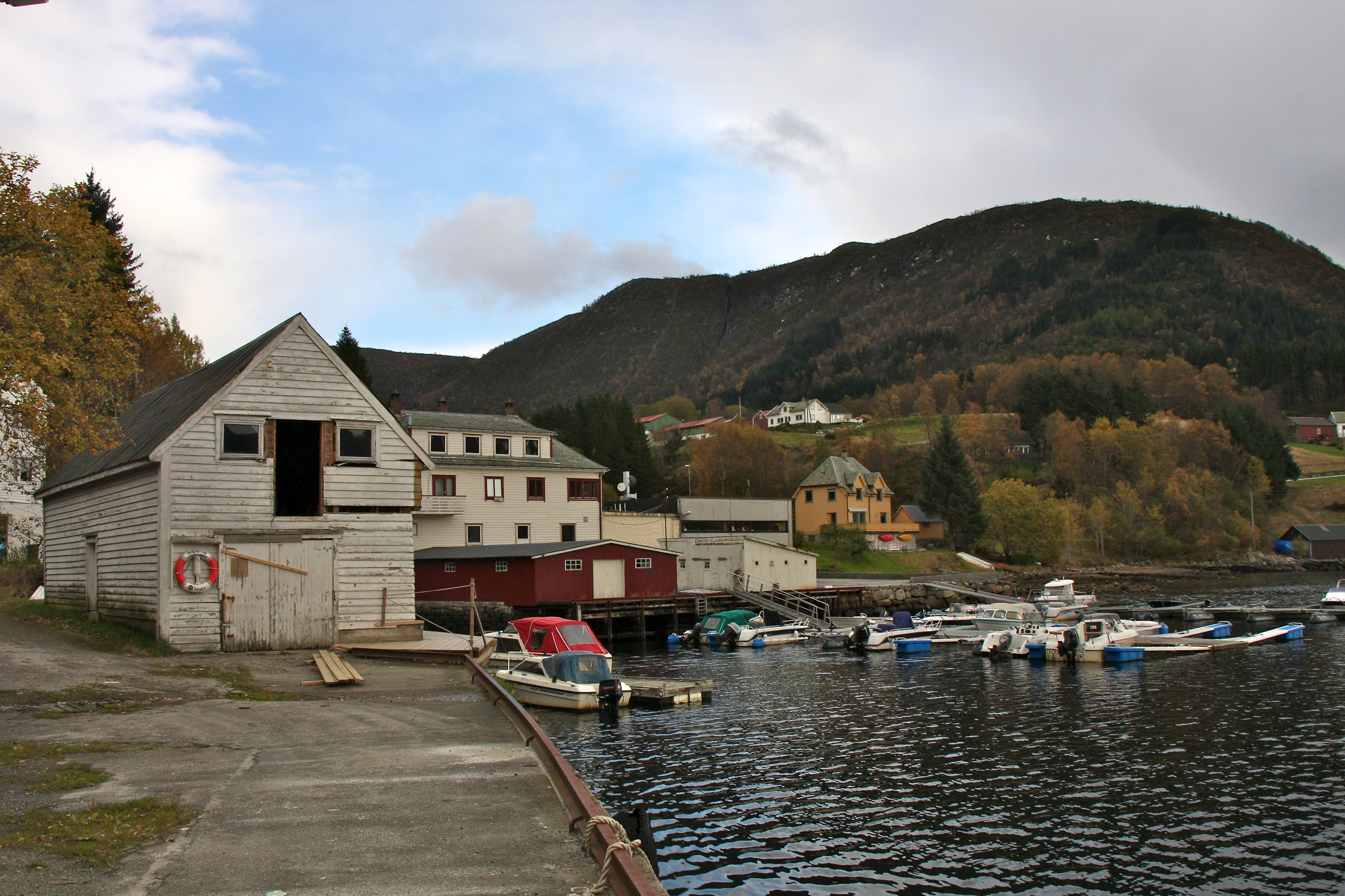 Gulen municipality, Norway.